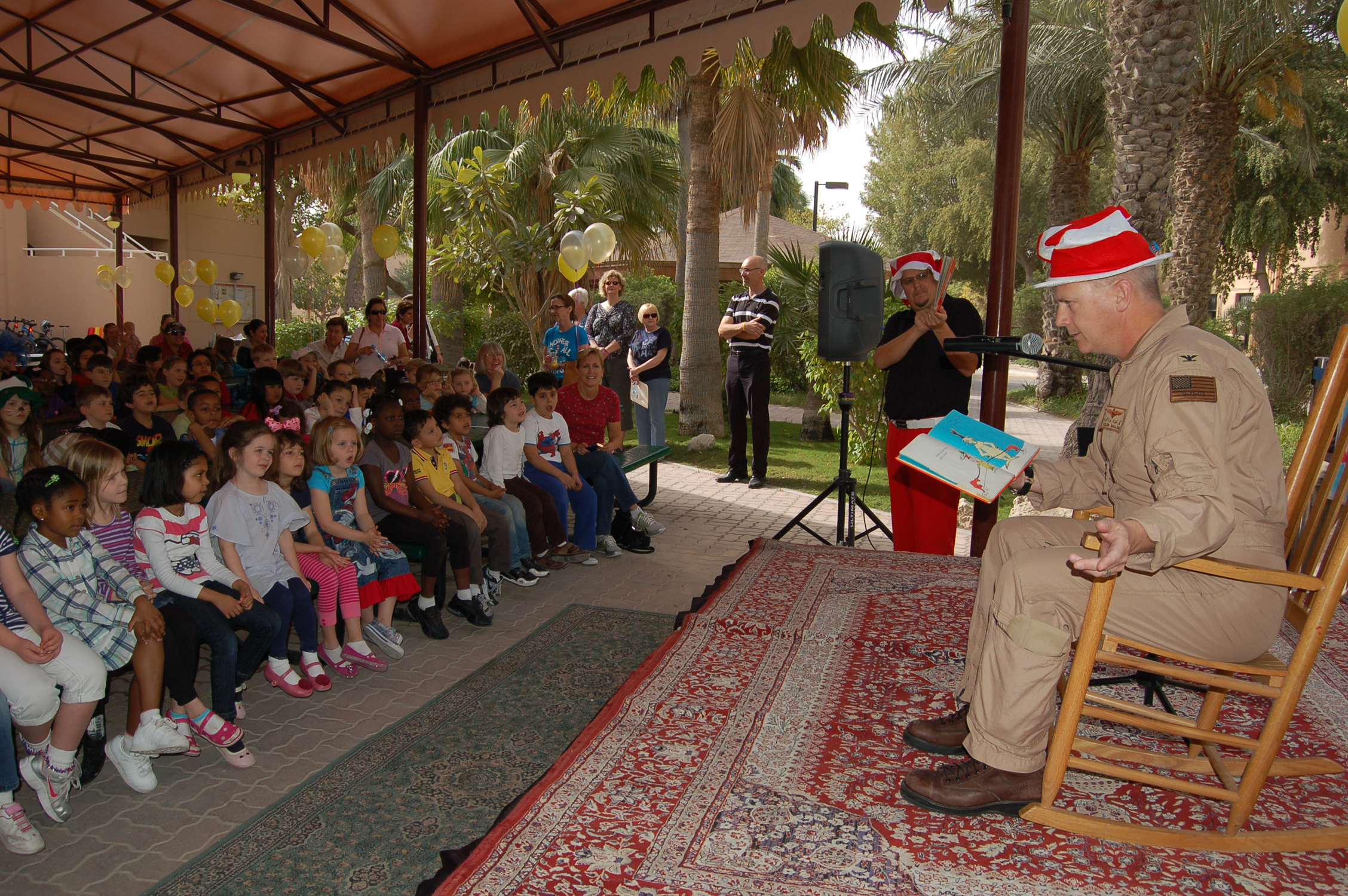 NAVAL SUPPORT ACTIVITY, Bahrain (Mar. 1, 2012) Capt. Colin Walsh, commanding officer of Naval Support Activity Bahrain, reads "Green Eggs and Ham" to children at the Dr. Seuss Birthday Celebration. The celebration, sponsored by morale, welfare and recreation, showcased the impact Dr. Seuss has made to children's literature. (U.S. Navy photo by Mass Communication Specialist 1st Class Sonja M. Chambers/Released) 120301-N-EI166-009